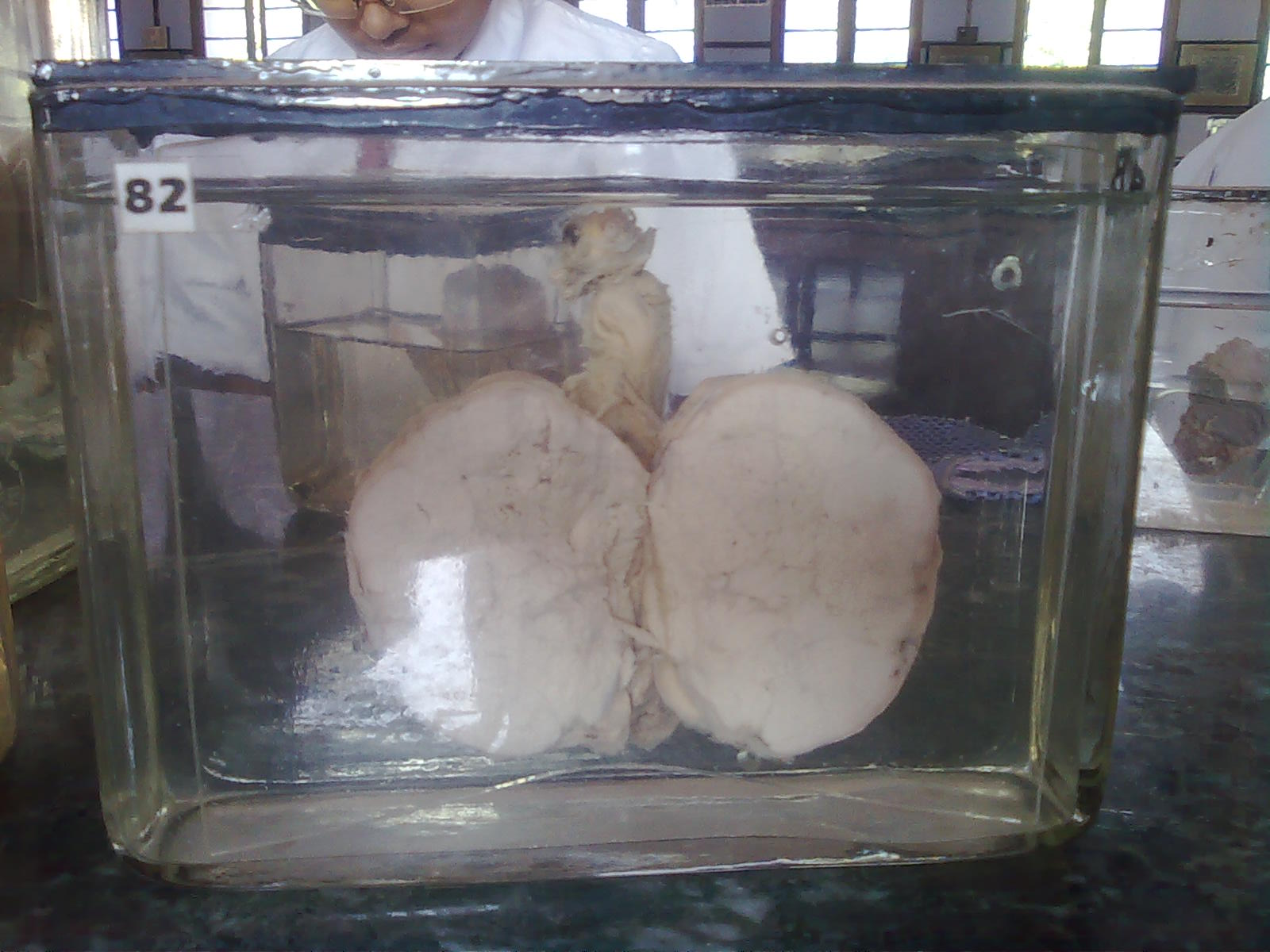 Bisected orchidectomy specimen showing seminoma of the testis